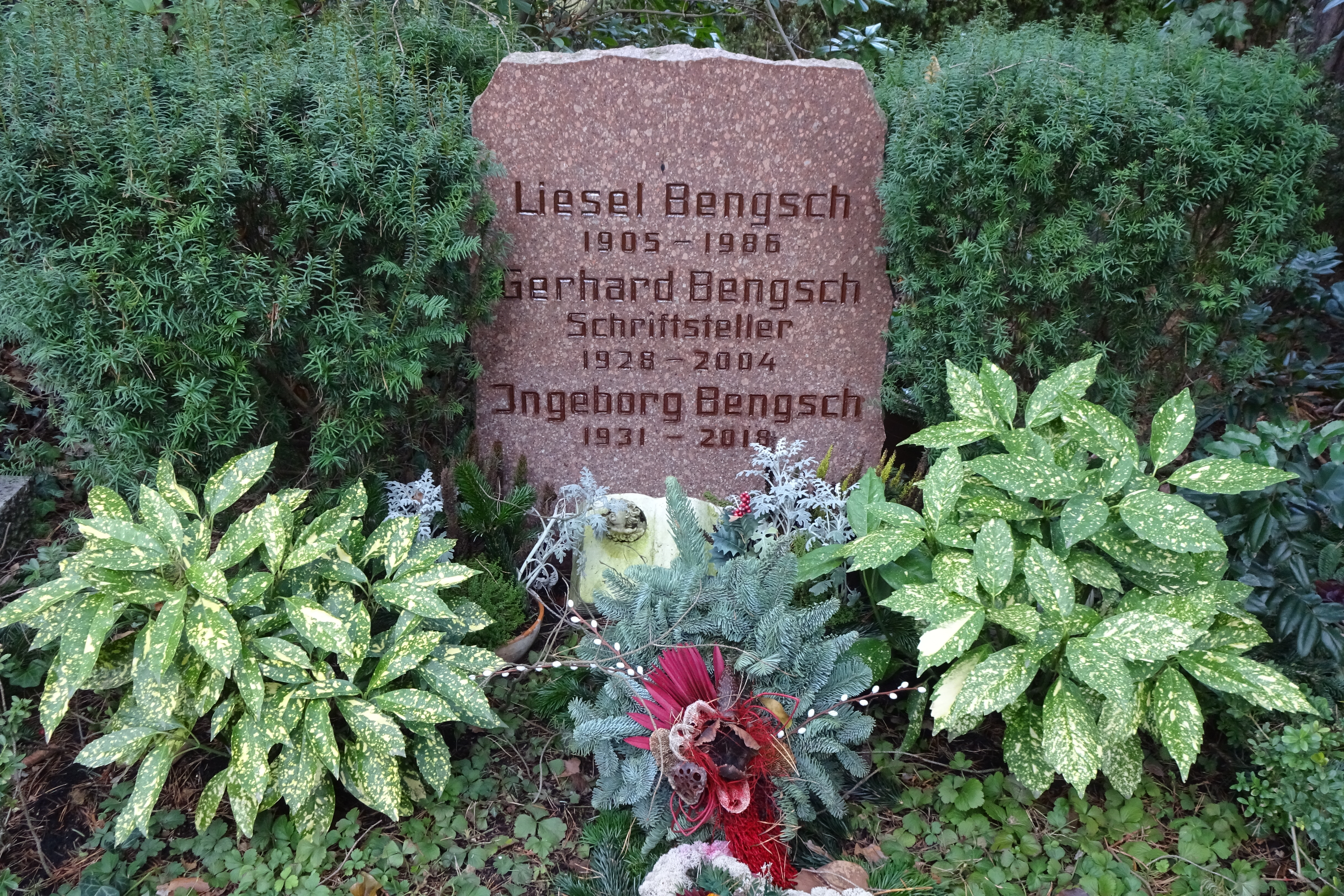 Grave of German screenwriter Gerhard Bengsch in Waldfriedhof Kleinmachnow in Kleinmachnow near Berlin